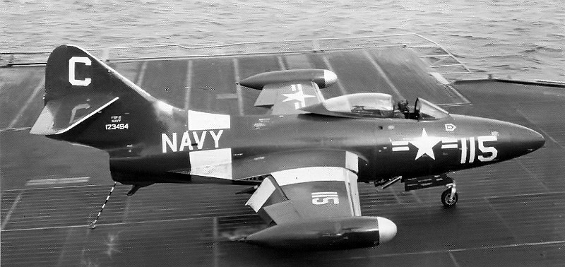 A Grumman F9F-2 Panther (BuNo. 123494) of fighter squadron VF-21 Mach Busters on the aircraft carrier USS Midway (CVB-41) in 1952. VF-21 was assigned to Carrier Air Group Six (CVG-6) and deployed to the Mediterranean Sea from 9 Jan 1952 to 5 May 1952.